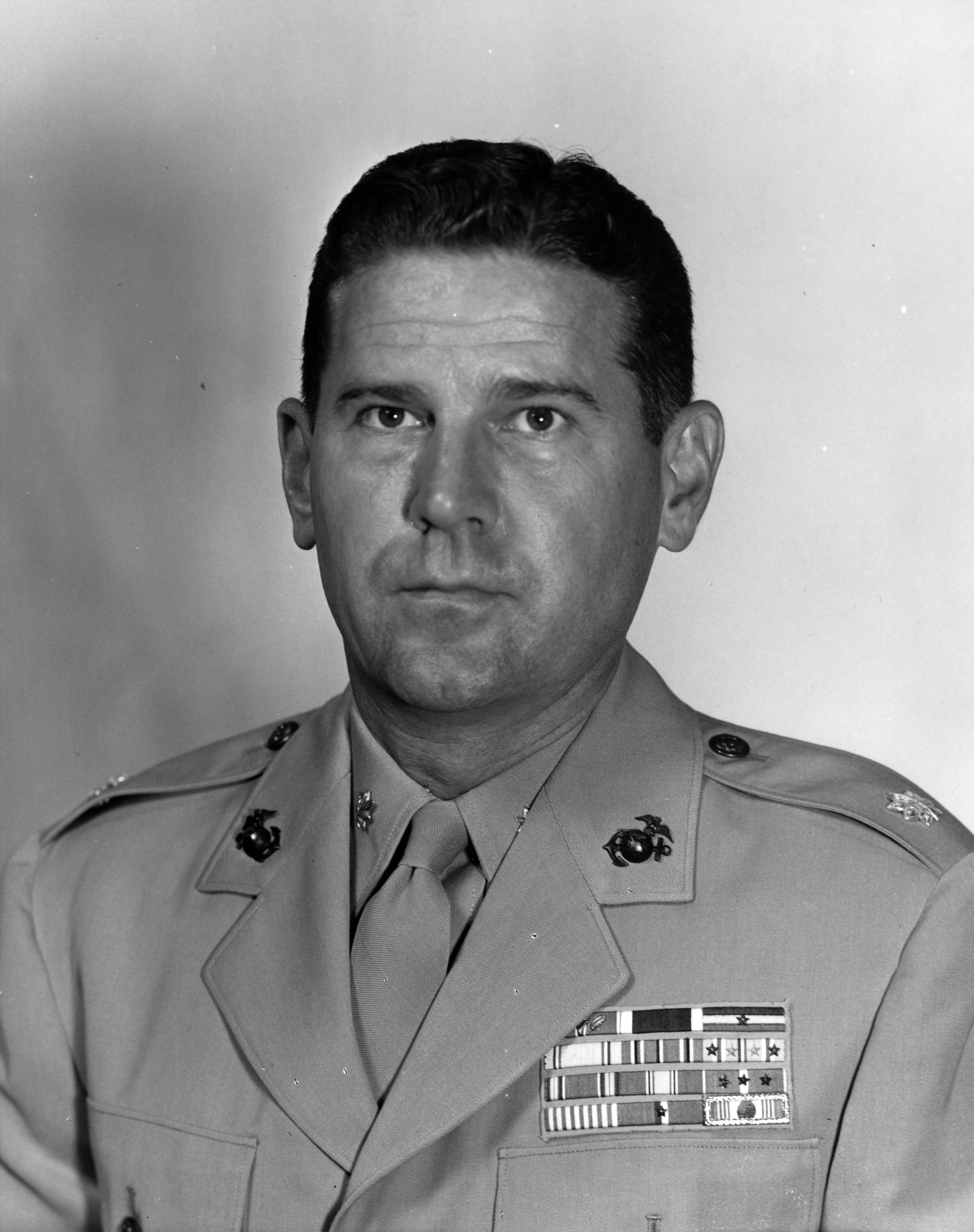 Leo John Dulacki (born December 29, 1918) is a highly decorated retired lieutenant general in the United States Marine Corps. During his 32 years of active service, Dulacki held several important intelligence assignment, including service in Moscow and Helsinki, and completed his career as Director of Personnel/Deputy Chief of Staff for Manpower at Headquarters Marine Corps. Here shown as lieutenant colonel in 1954.